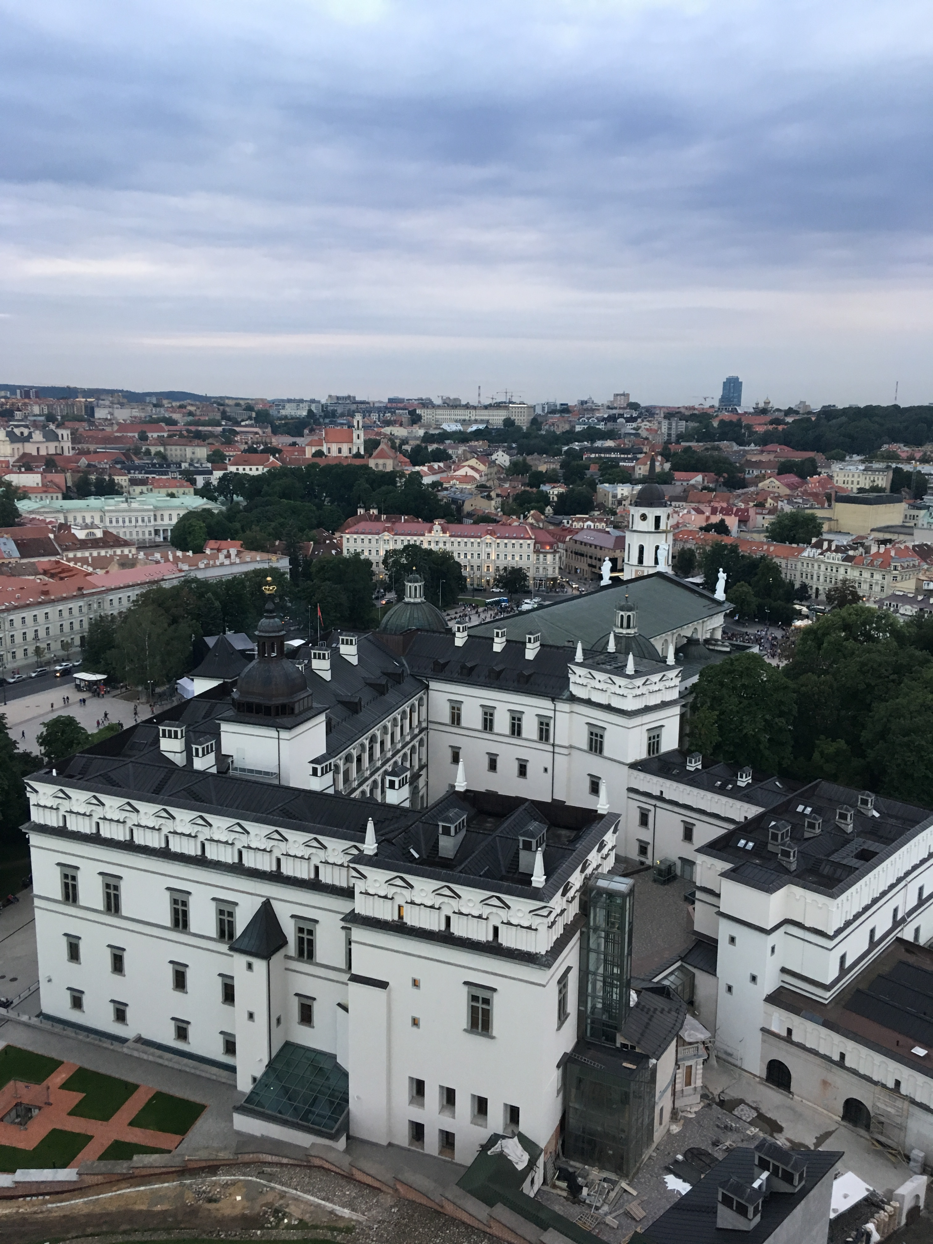 Palace of the Grand Dukes of Lithuania from the Gediminas Tower in Vilnius, Lithuania.